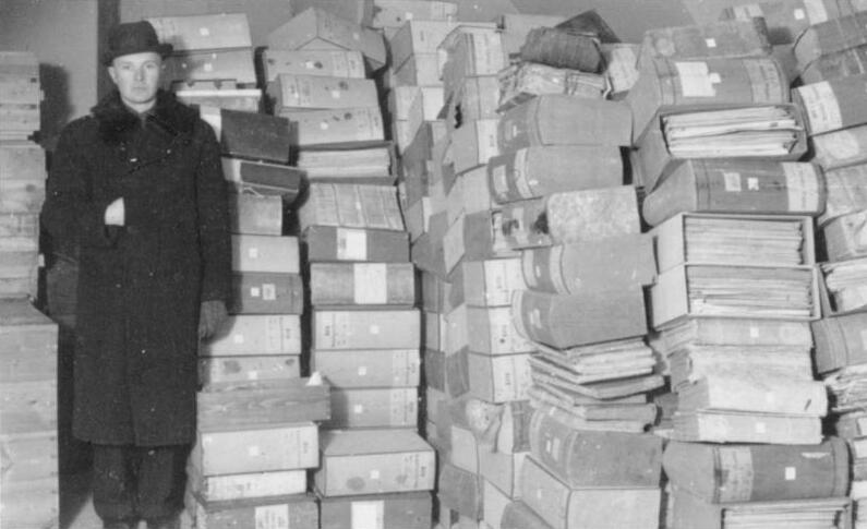 The files of the Narva city archive, evacuated ("saved") by the retreating Germans and pro-German Estonians to Tallinn (Reval), and Narva city archivest A.Kotkas who has come along with it